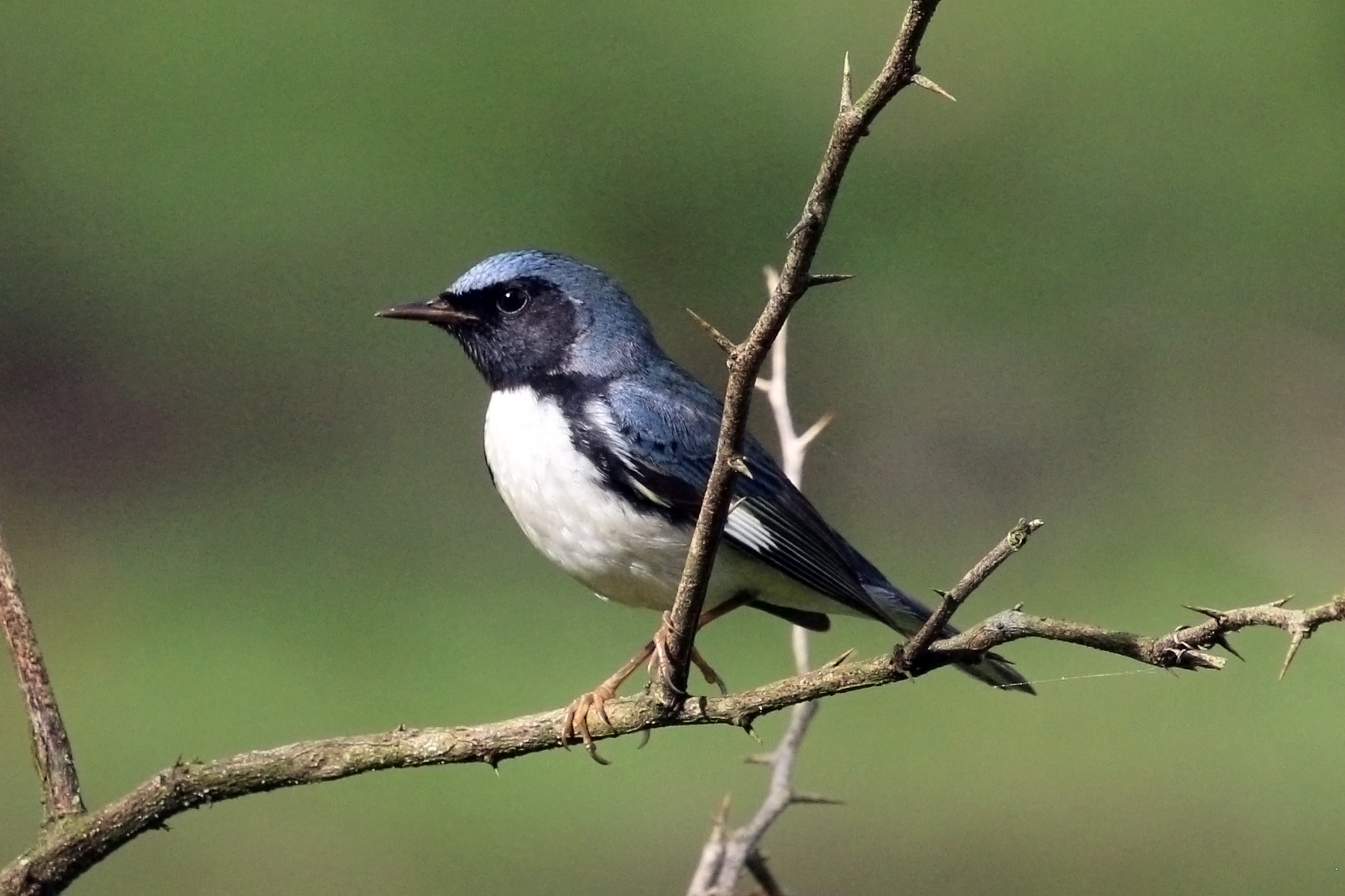 Black-throated blue warbler (Setophaga caerulescens) male, Stewart Town, Jamaica